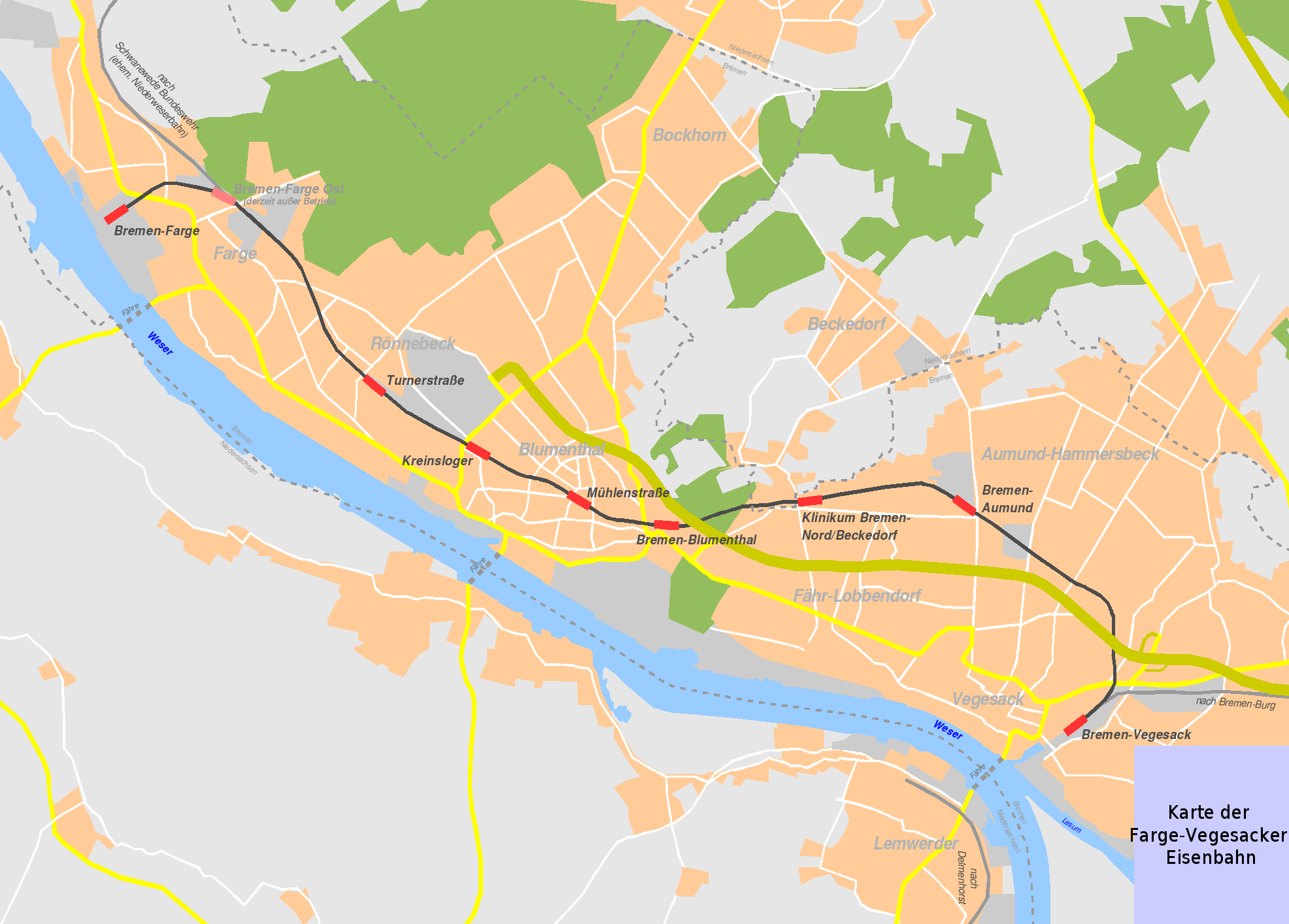 Railway-Map of Farge-Vegesacker Eisenbahn